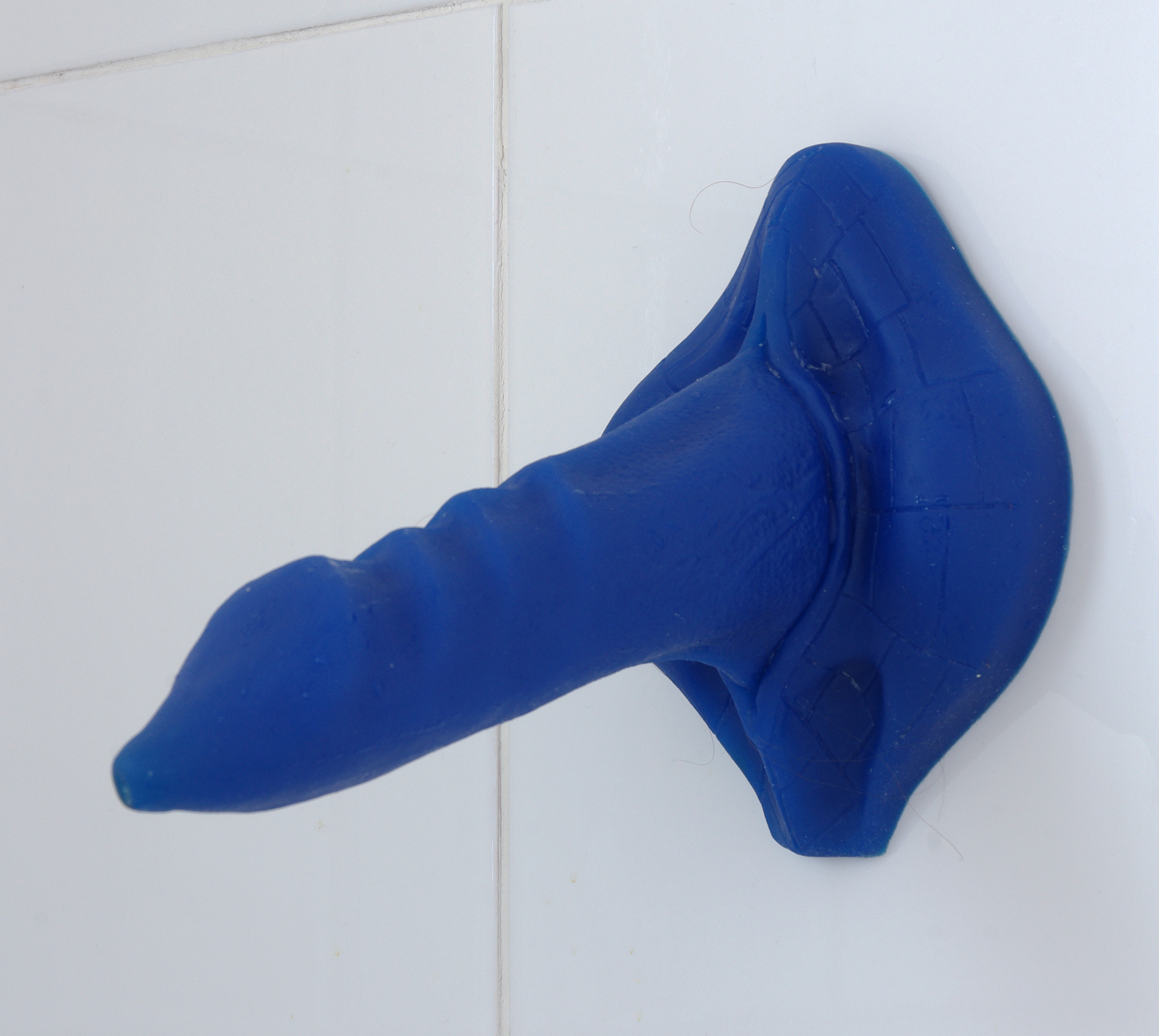 A dragon-style zeta toy (animal penis replica).